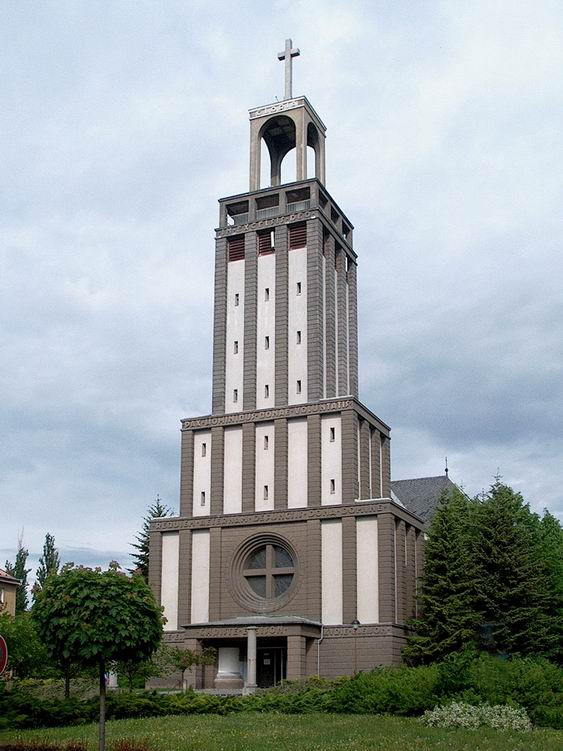 Church of Saint Hedwig of Silesia in Opava, Czech Republic.